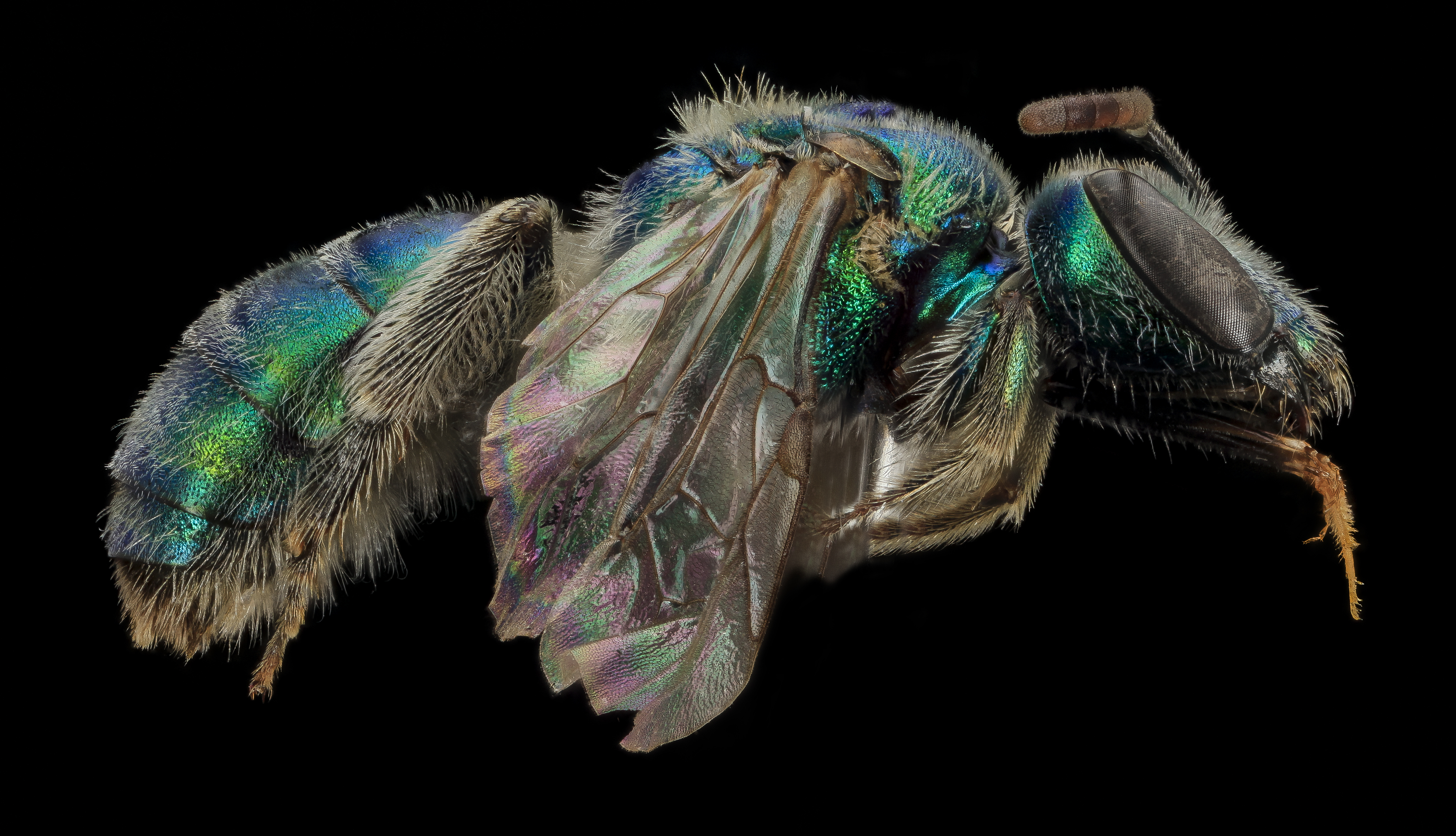 Augochlorella pomoniella. A western Augochlorella species... this time from Zion National Park in Utah, known for its rock formations, but also protecting some darn nice bees. Kim Huntzinger identified this bad boy and Wayne Boo took the shot today and of course the staff of Zion did the bee catching. Canon Mark II 5D, Zerene Stacker, 65mm Canon MP-E 1-5X macro lens, Twin Macro Flash, F5.0, ISO 100, Shutter Speed 200, link to a .pdf of our set up is located in our profile